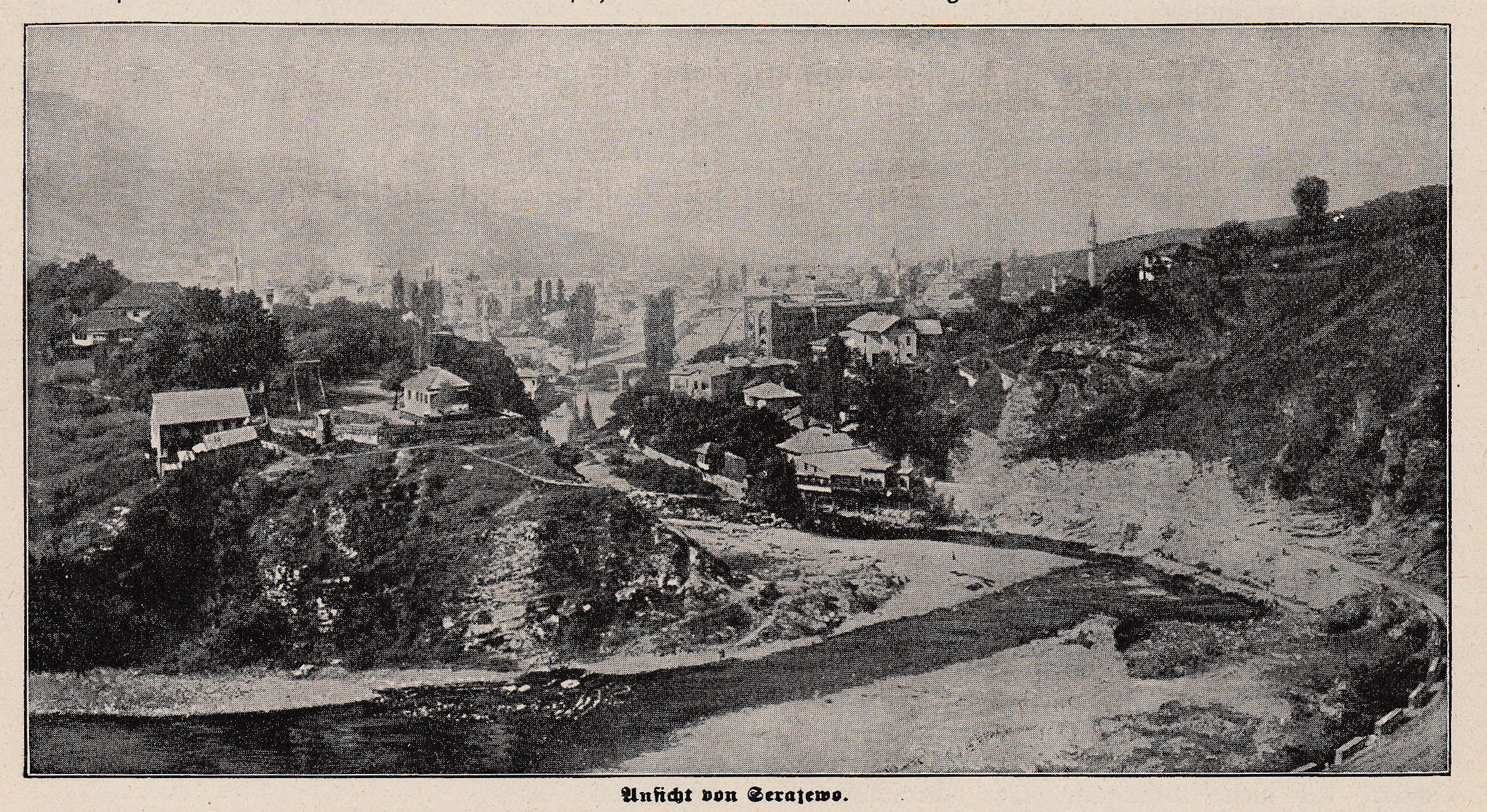 Der Krieg 1914/19 in Wort und Bild, published 1919.